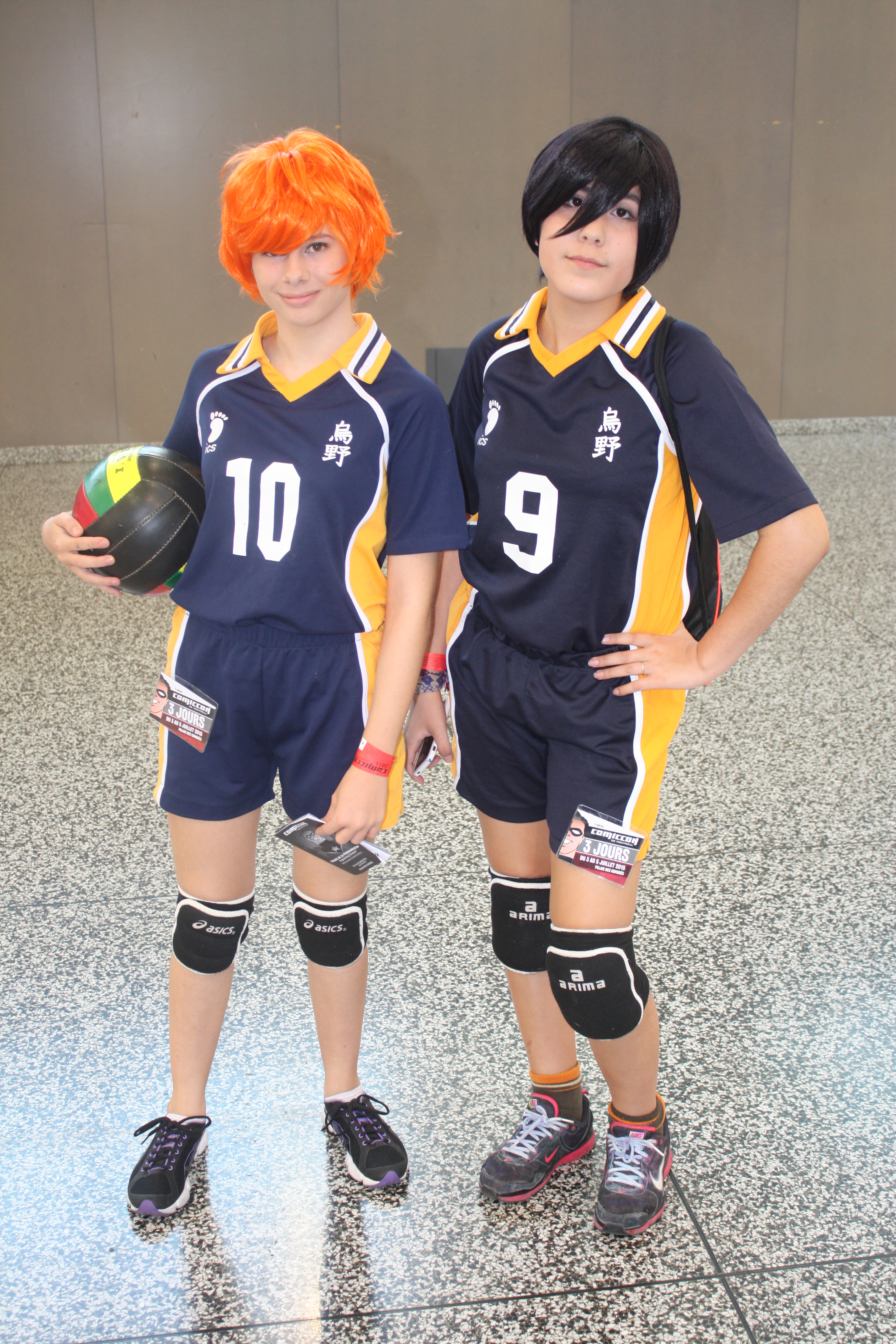 Cosplay one day one of Montreal Comiccon 2015.